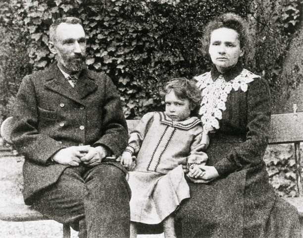 Marie, Pierre and Irene Curie